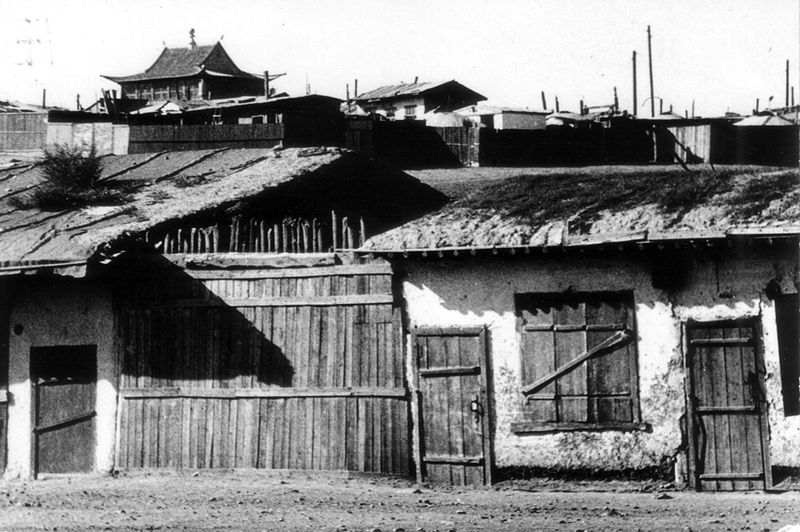 A part of the old Chinese quarter (undemolished) in Ulan Bator, Mongolia (1972)